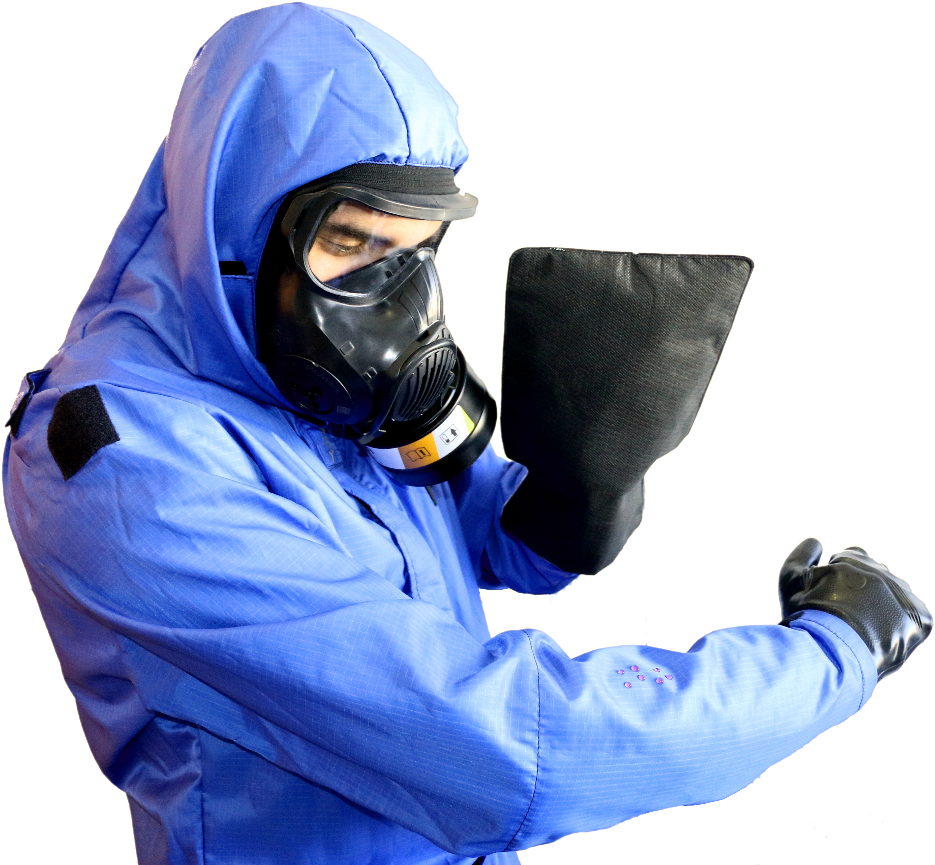 Emergency decontamination mitt with polycombi